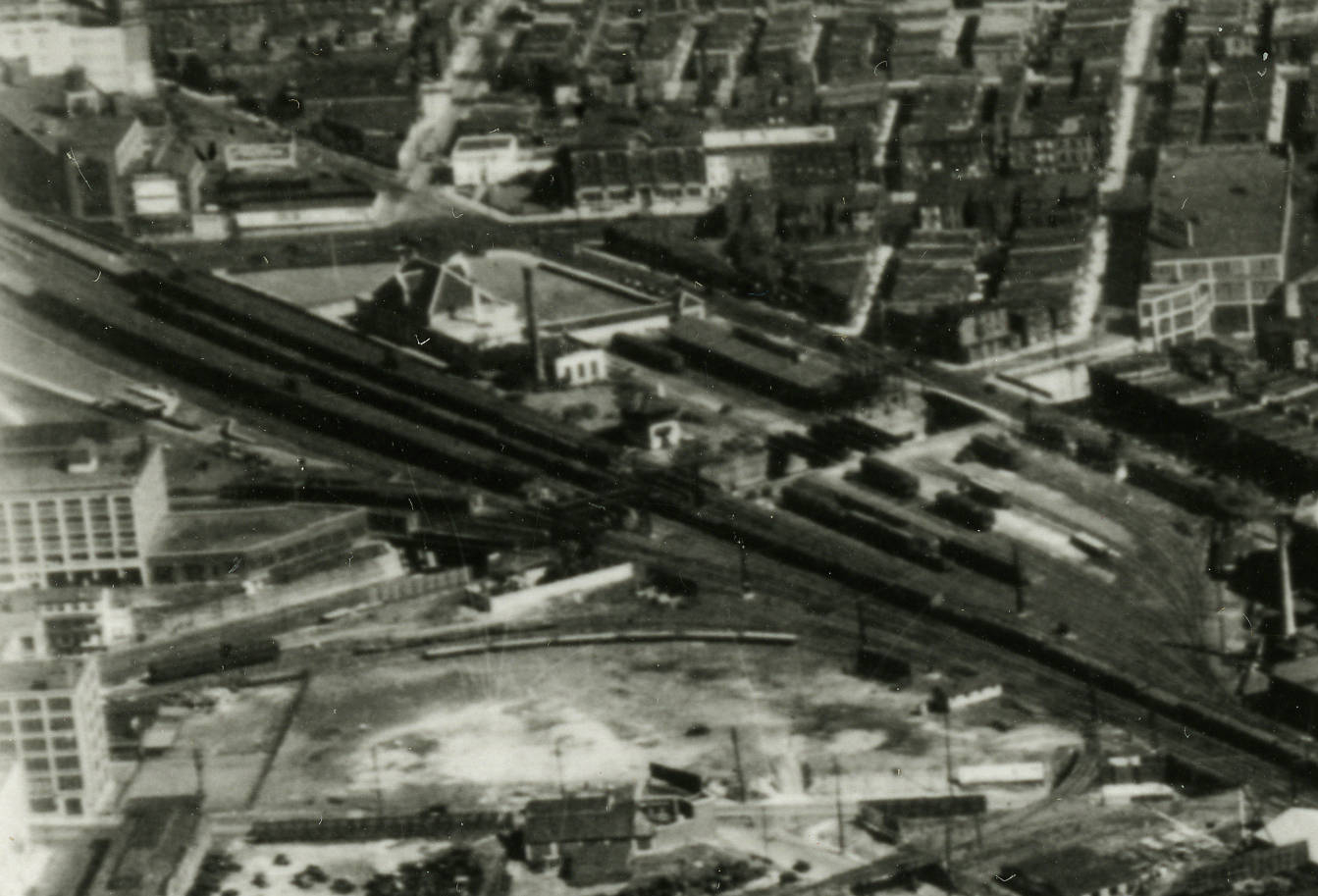 Aerial photograph of North Philadelphia station in September 1929. The camera is pointed slightly south of east.